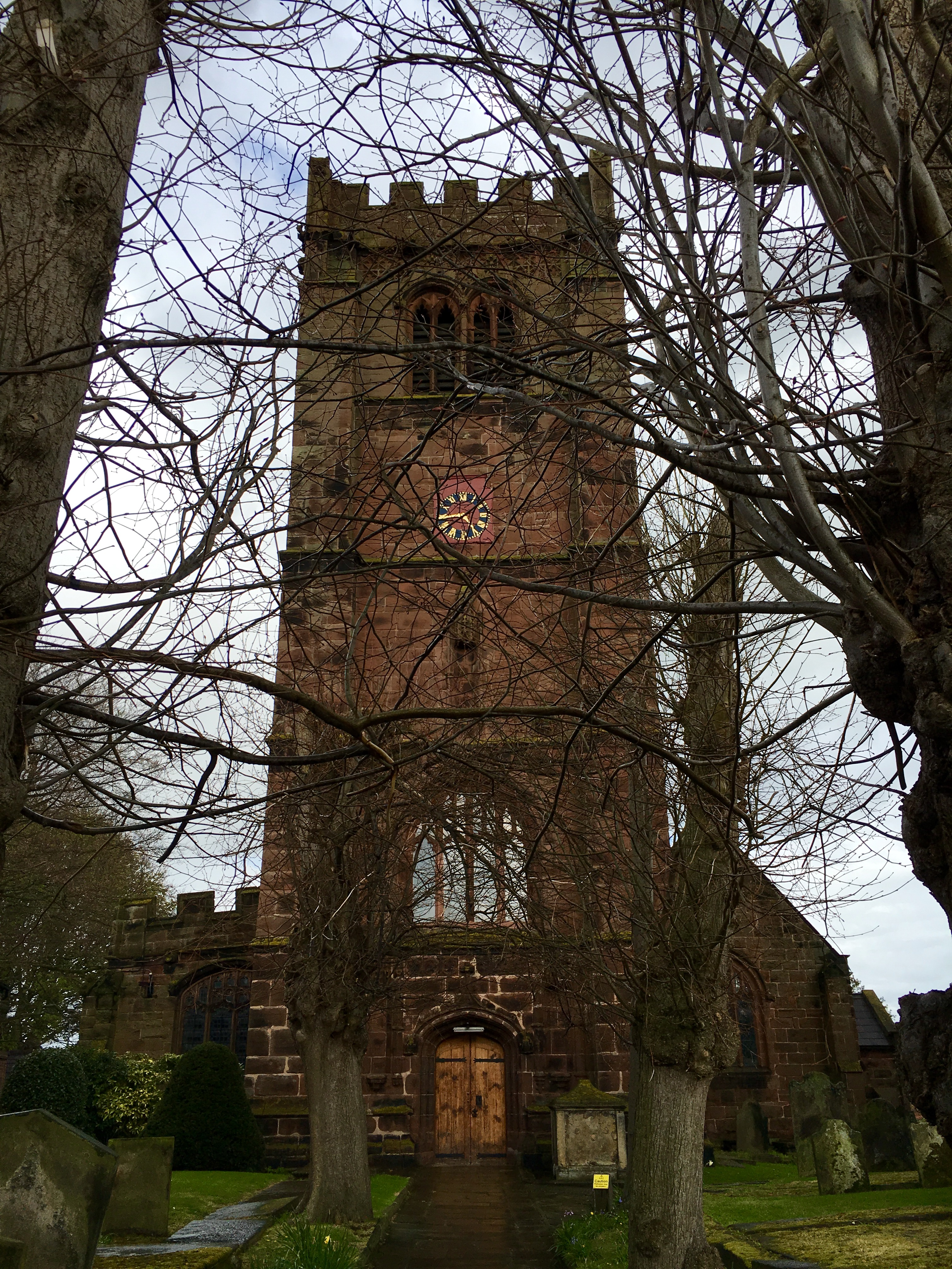 The Church of England Church at the heart of the Village of Tarvin